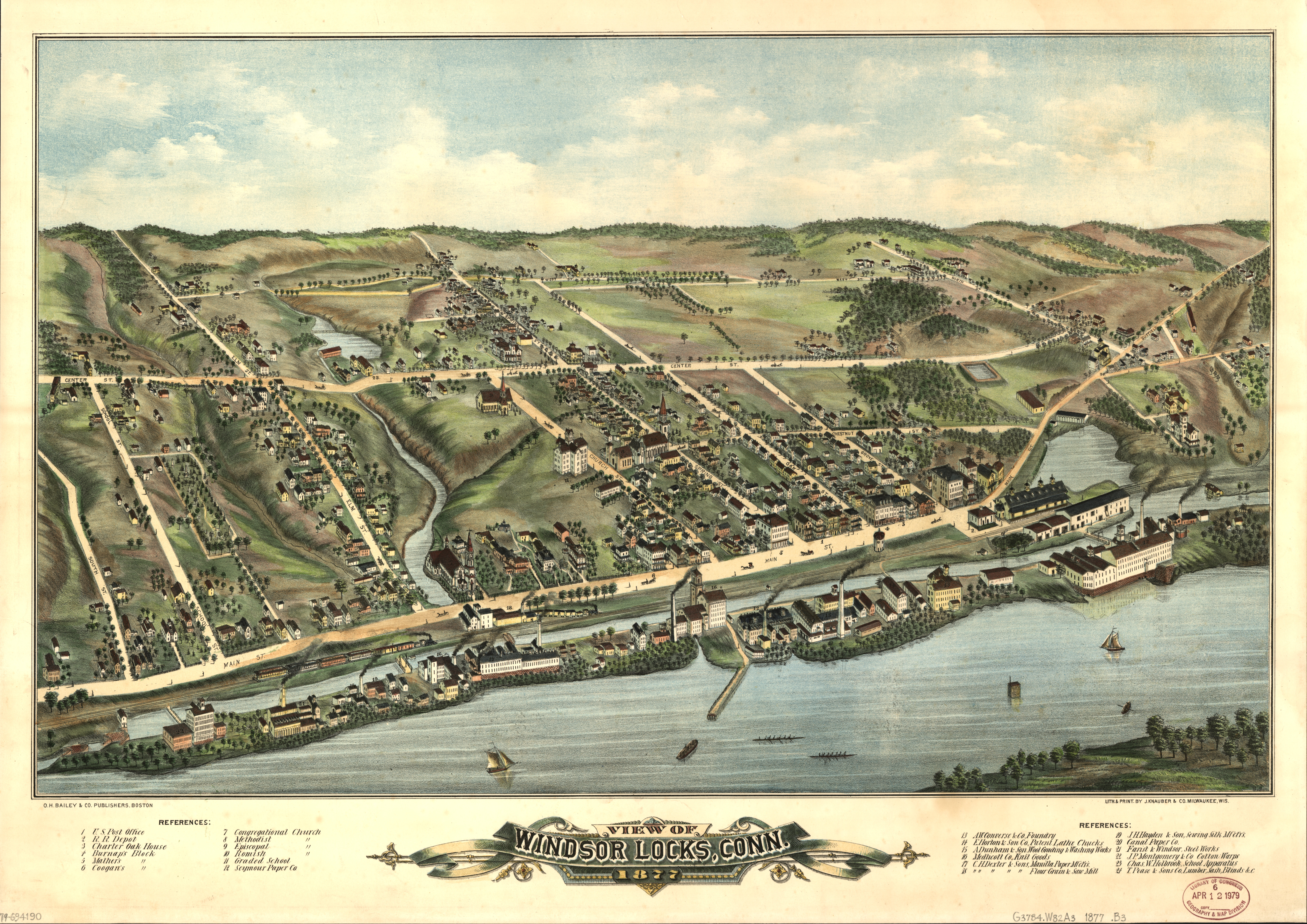 1877 aerial map of Windsor Locks, Connecticut. The pre-1875 railroad station is shown, thus the sketches for the map were likely done several years before its 1877 publication.